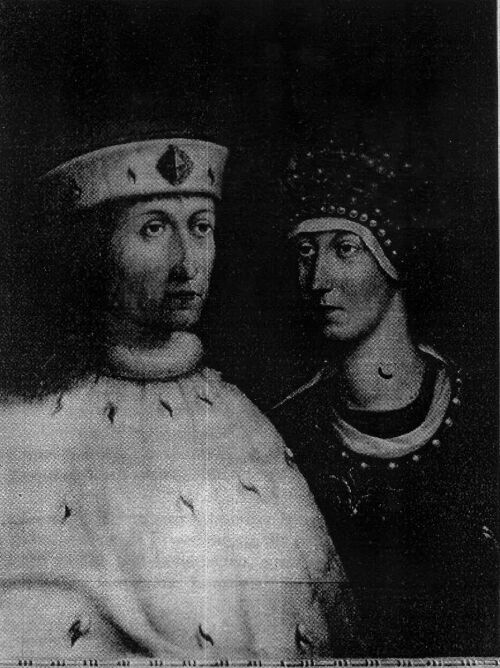 Philip, Count Palatine of the Rhine with his wife